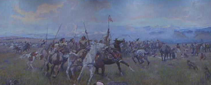 Detail from painting by C.M. Russell, Lewis and Clark Meet the Flathead Indians at Ross' Hole 1912. Hangs in Montana State Capitol, House of Representatives' Chamber